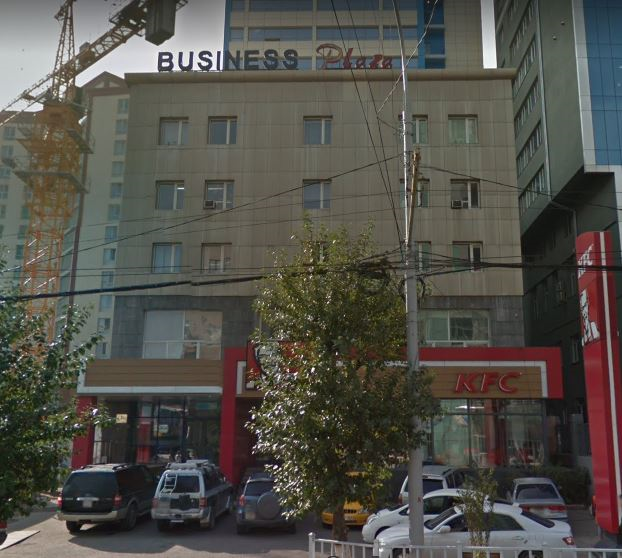 tsuo gadaa